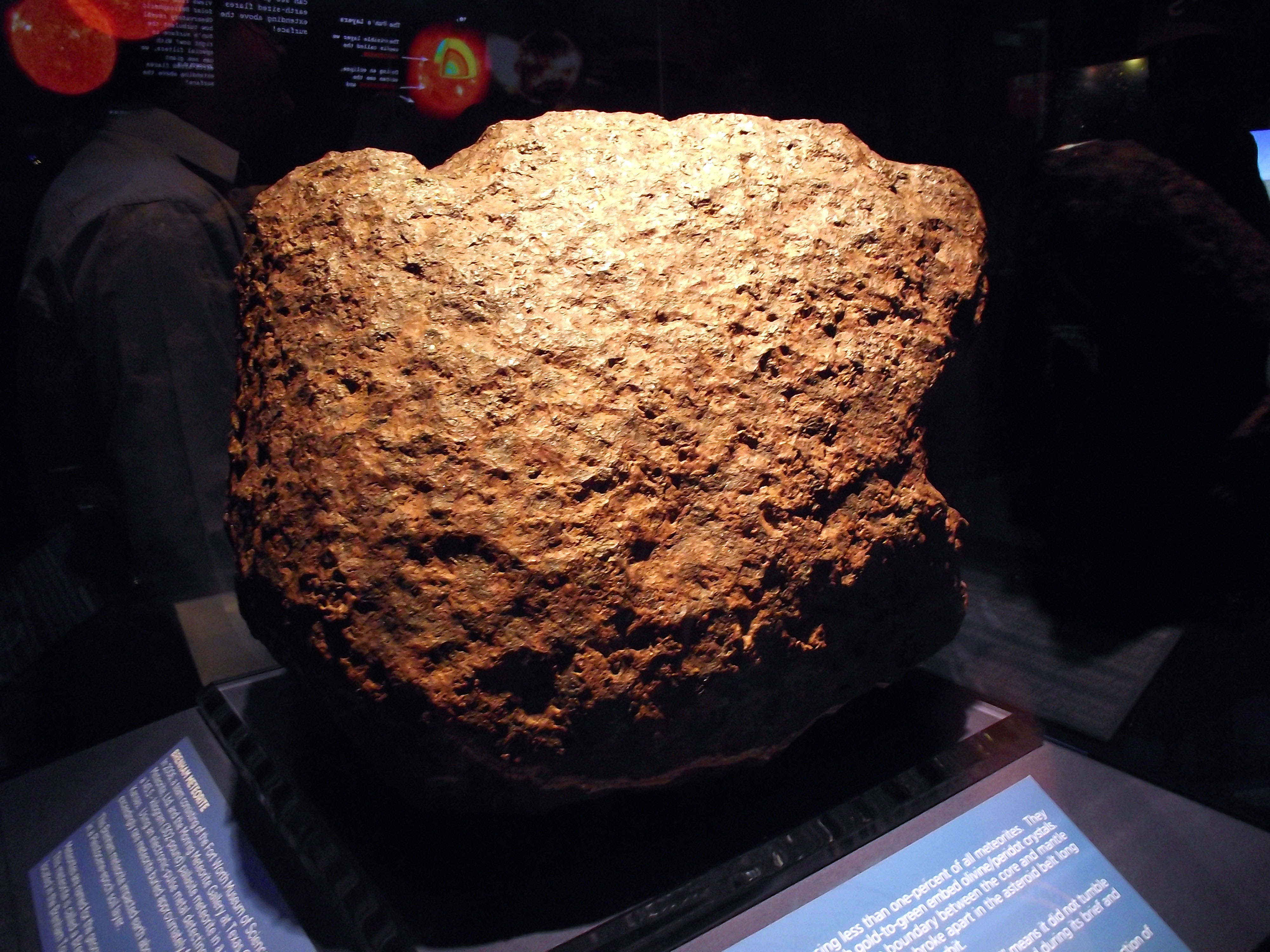 Part of the Bernham Meteorite which is housed in the Forth Worth Museum of Science and History, about 650 kg (1430 pounds).